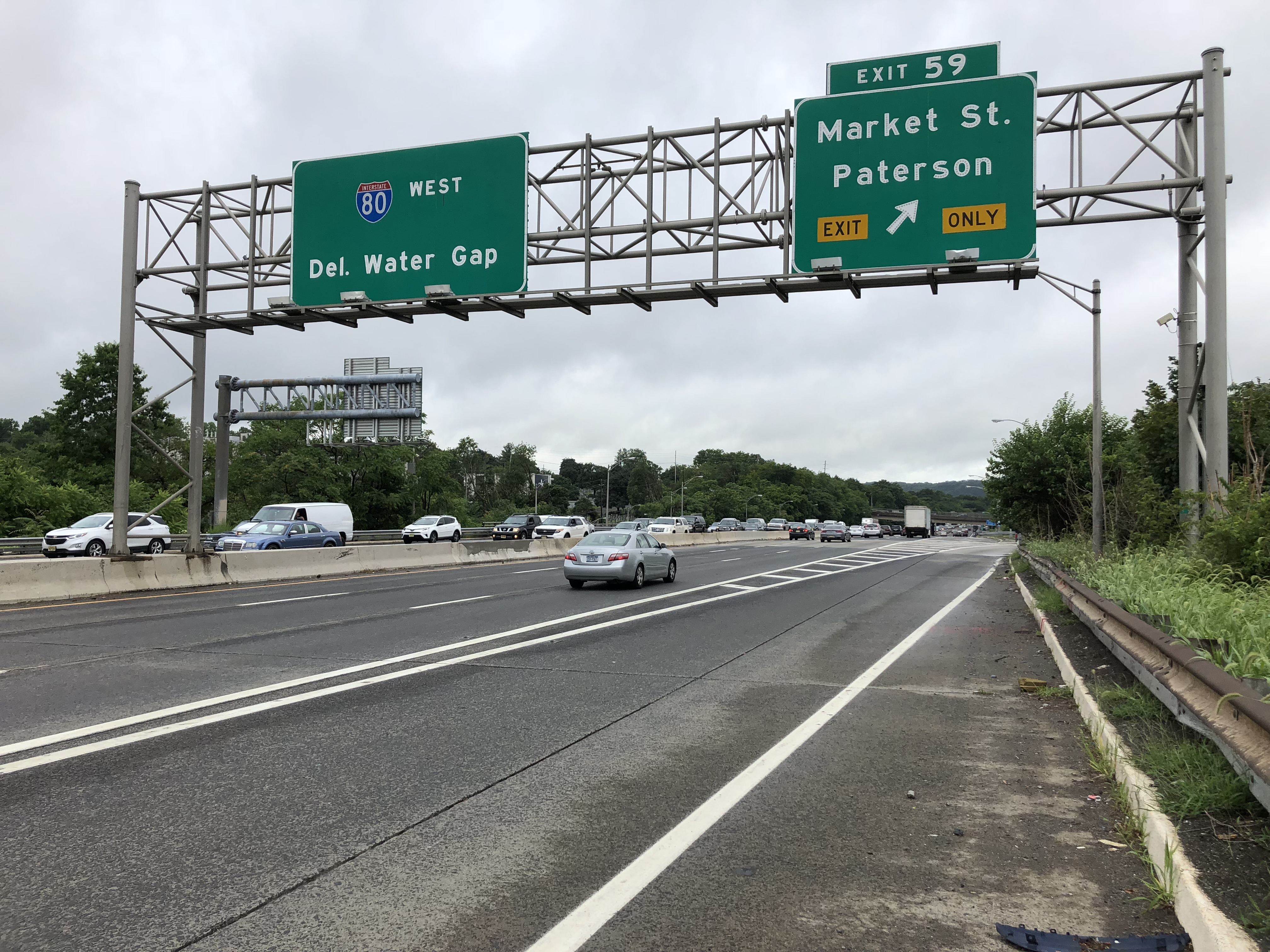 View west along Interstate 80 (Bergen-Passaic Expressway) at Exit 59 (Market Street, Paterson) in Paterson, Passaic County, New Jersey